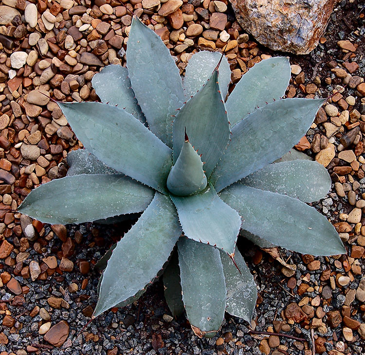 Agave parrasana in National M. M. Grishko botanical garden (Kiev, Ukraine)